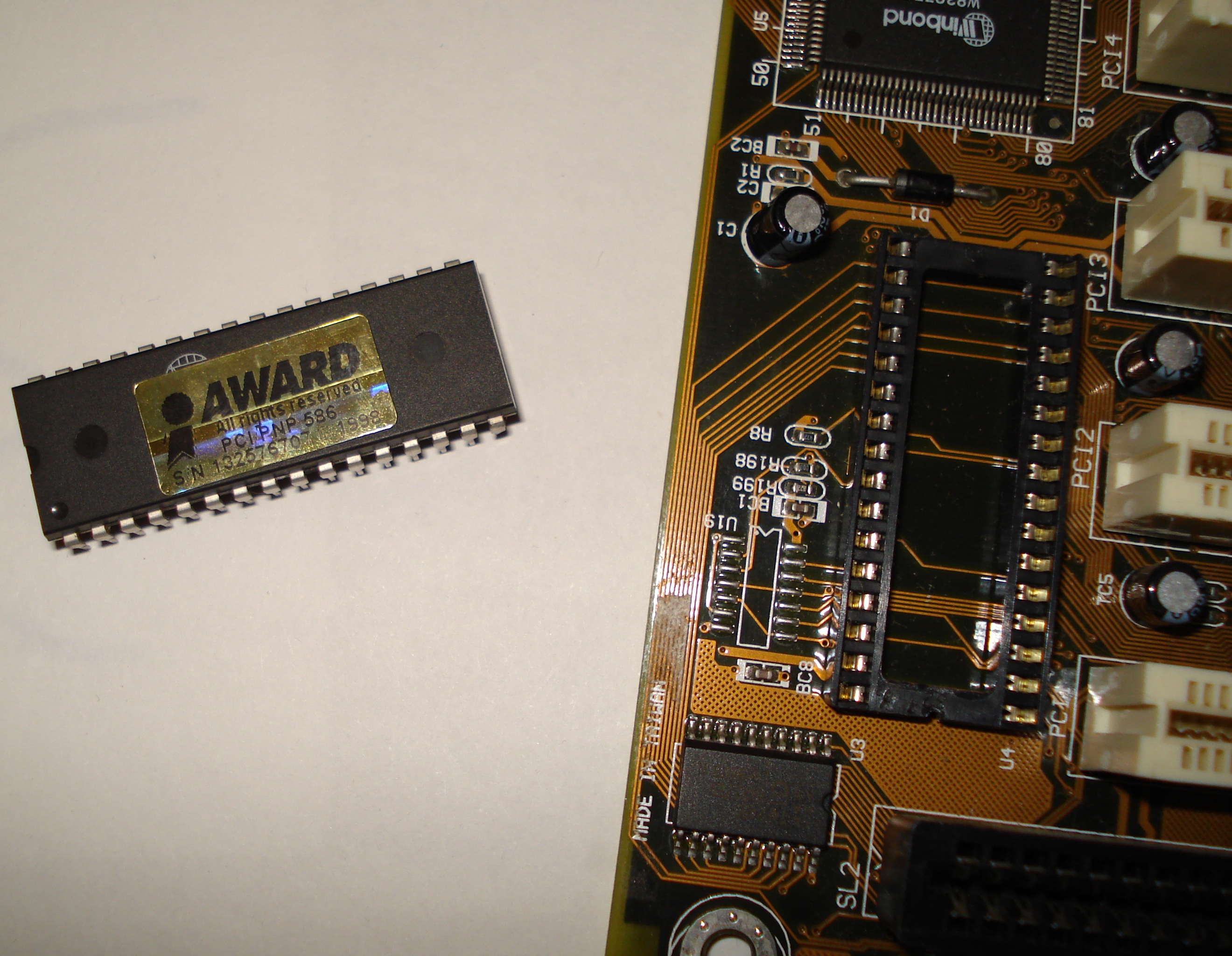 Detached BIOS chip from socket